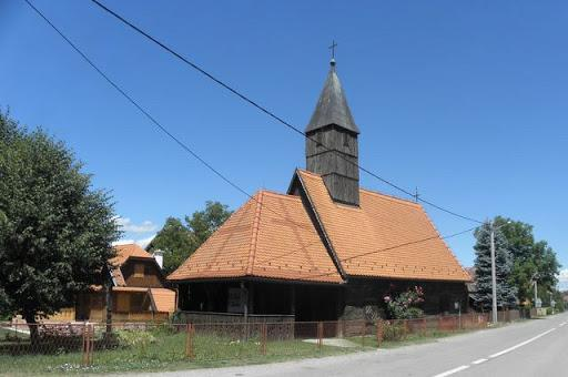 Church in Letovanić